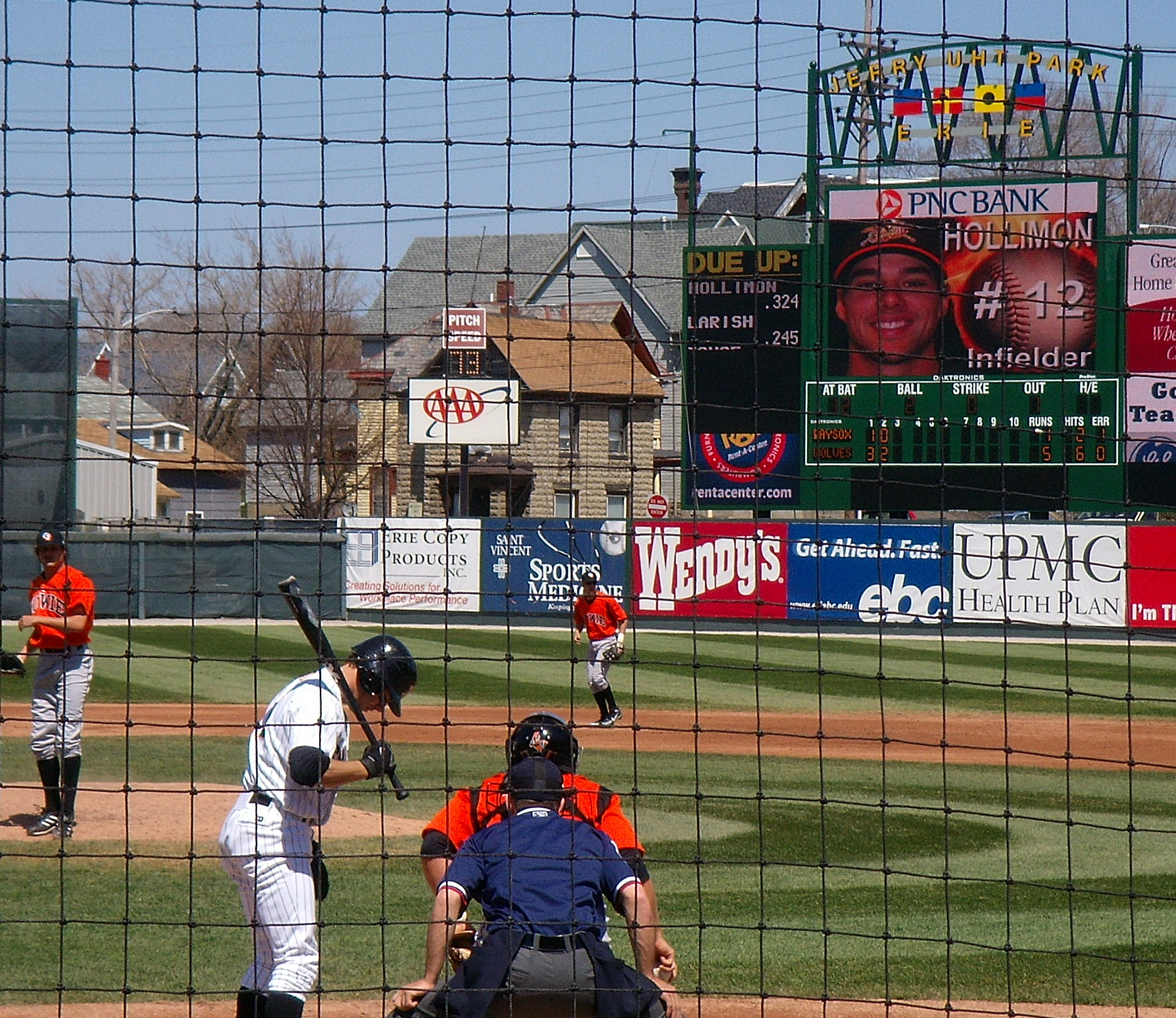 This photograph of Jerry Uht Park was taken in Erie, Pennsylvania by Pat Noble (self) on 22 April 2007.